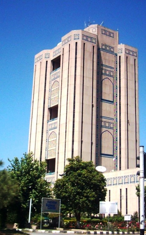 Saudi Pak Tower